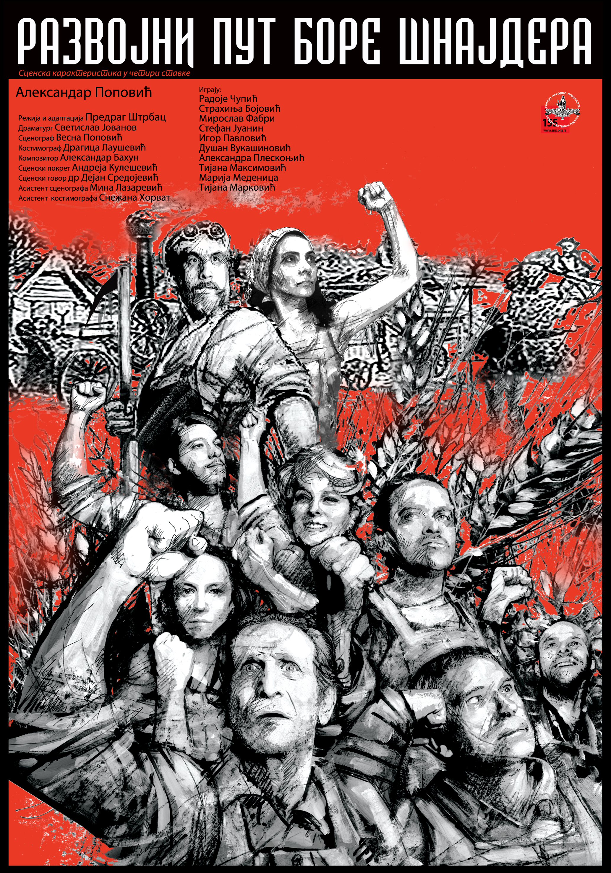 The Development Path of Bora Šnajder, SNT, Novi Sad, 2016; Theater Poster Image of the Serbian National Theatre Srpski (latinica): Razvojni put Bore Šnajdera, SNP, Novi Sad, 2016; Pozorišni plakat Srpskog narodnog pozorišta Српски (ћирилица): Развојни пут Боре Шнајдера, СНП, Нови Сад, 2016; Позоришни плакат Српског народног позоришта